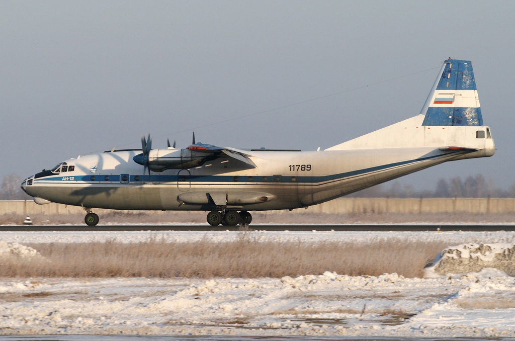 Without RA-prefix. Ex-LZ-BFB BF Cargo (Bulgaria).